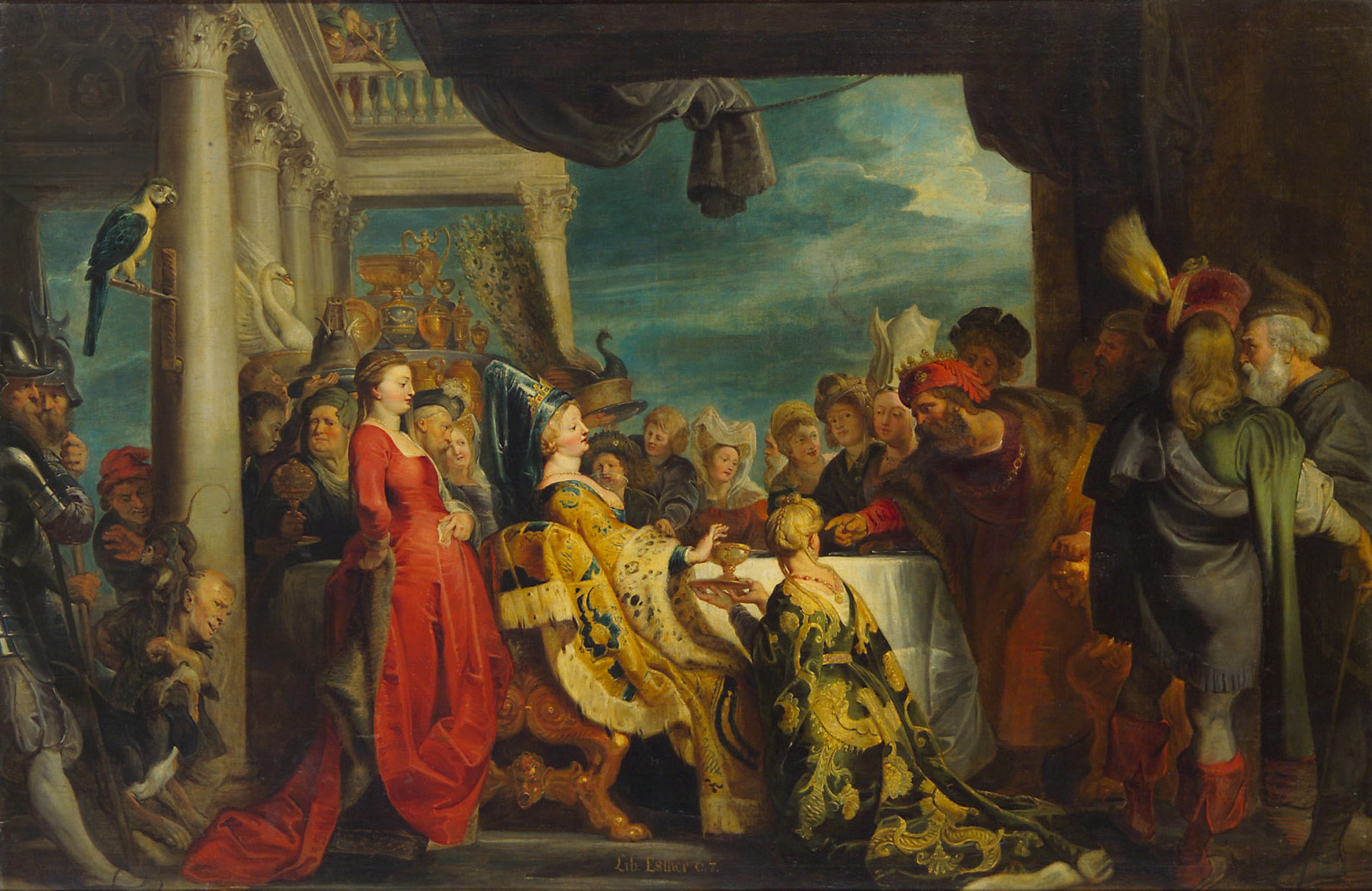 A history painting on the Lombard king Alboin ordering to serve wine to Rosamunde in her father's skull, which he had previously killed. Probable help from the workshop.